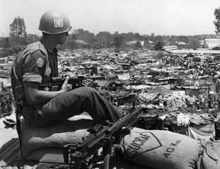 Swedish UN soldier while on duty in the Congo in the 1960s.